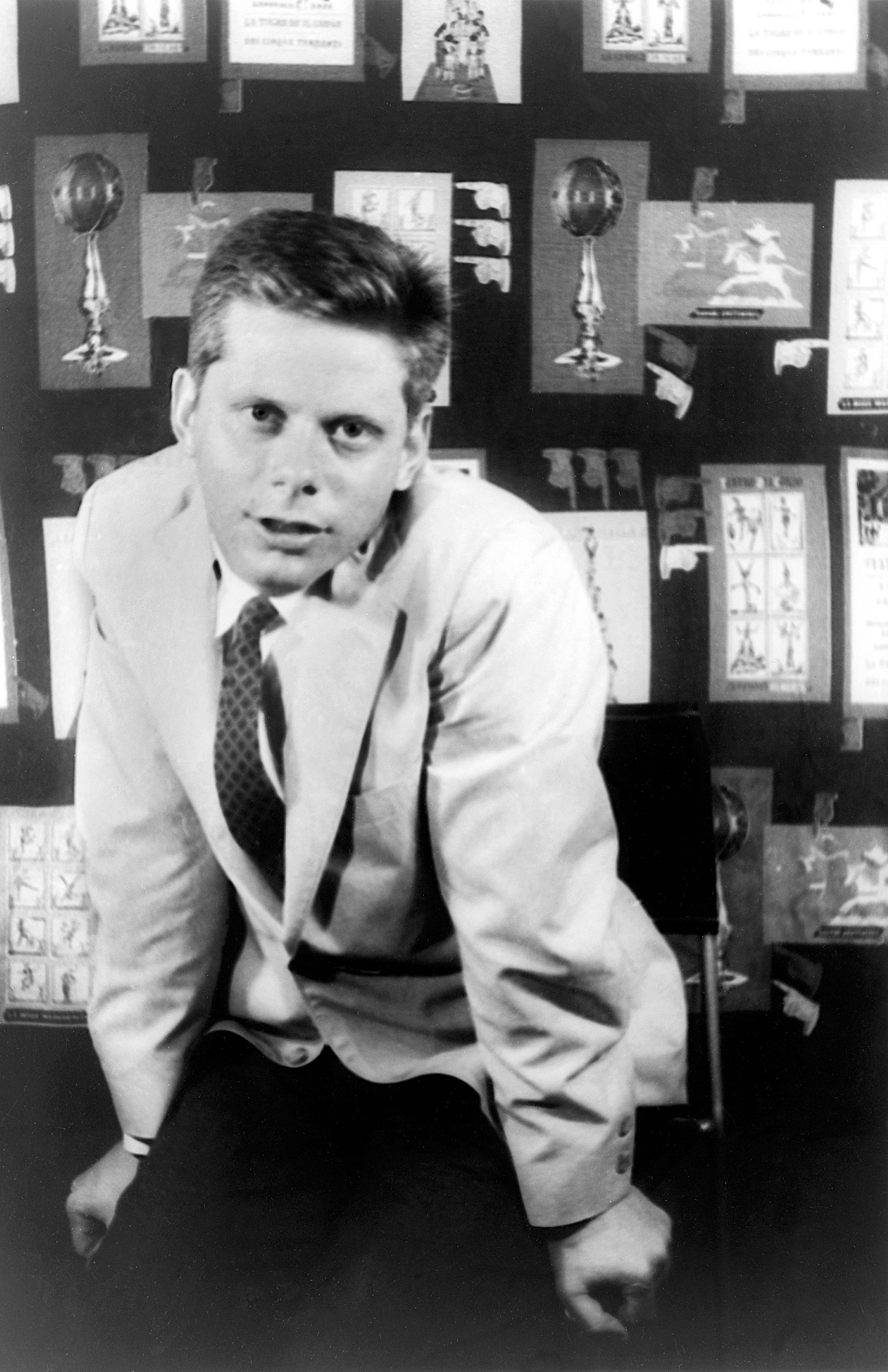 Portrait of actor Robert Morse